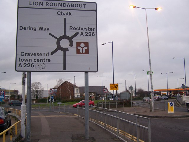 Lion Roundabout on A226 Rochester Road